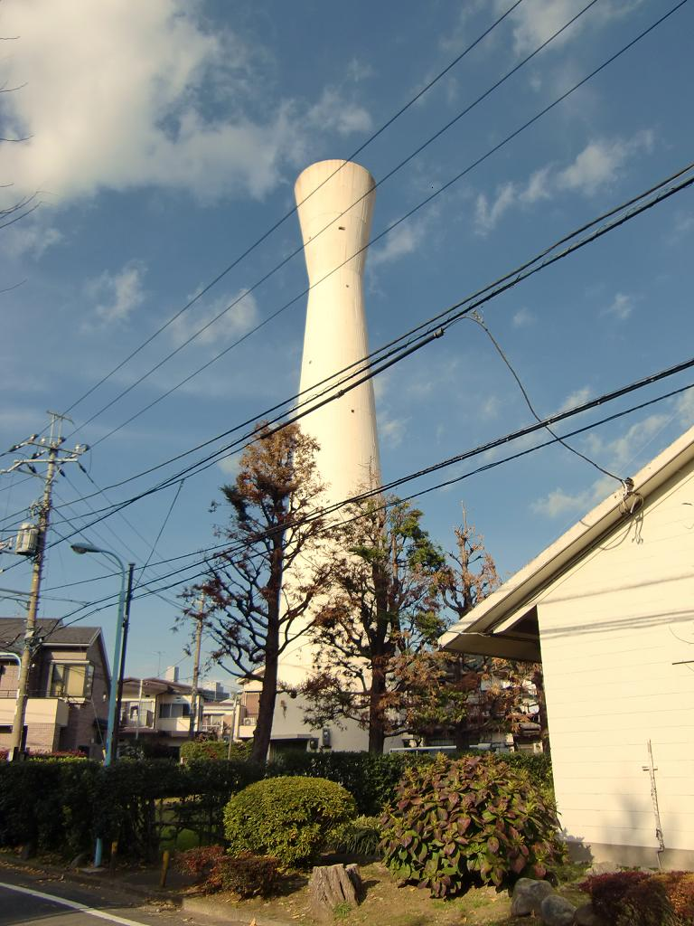 The water tower located in former Asagaya residence, Tokyo.